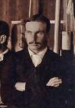 Frank R. Lillie in 1893. Image is cropped (and flipped) from a larger image of Charles Otis Whitman's embryology class.